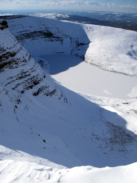 Llyn y Fan Fach. The Lady of the Lake.